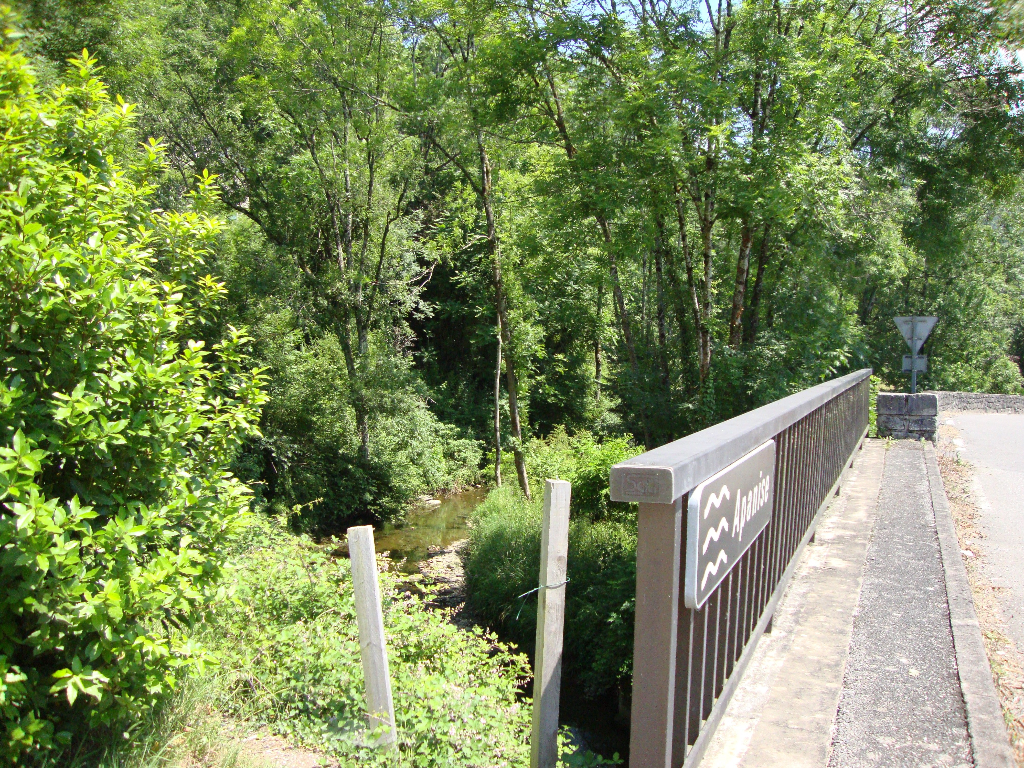 Restoue (Laguinge-Restoue, Pyr-Atl, Fr) Apanise, small river